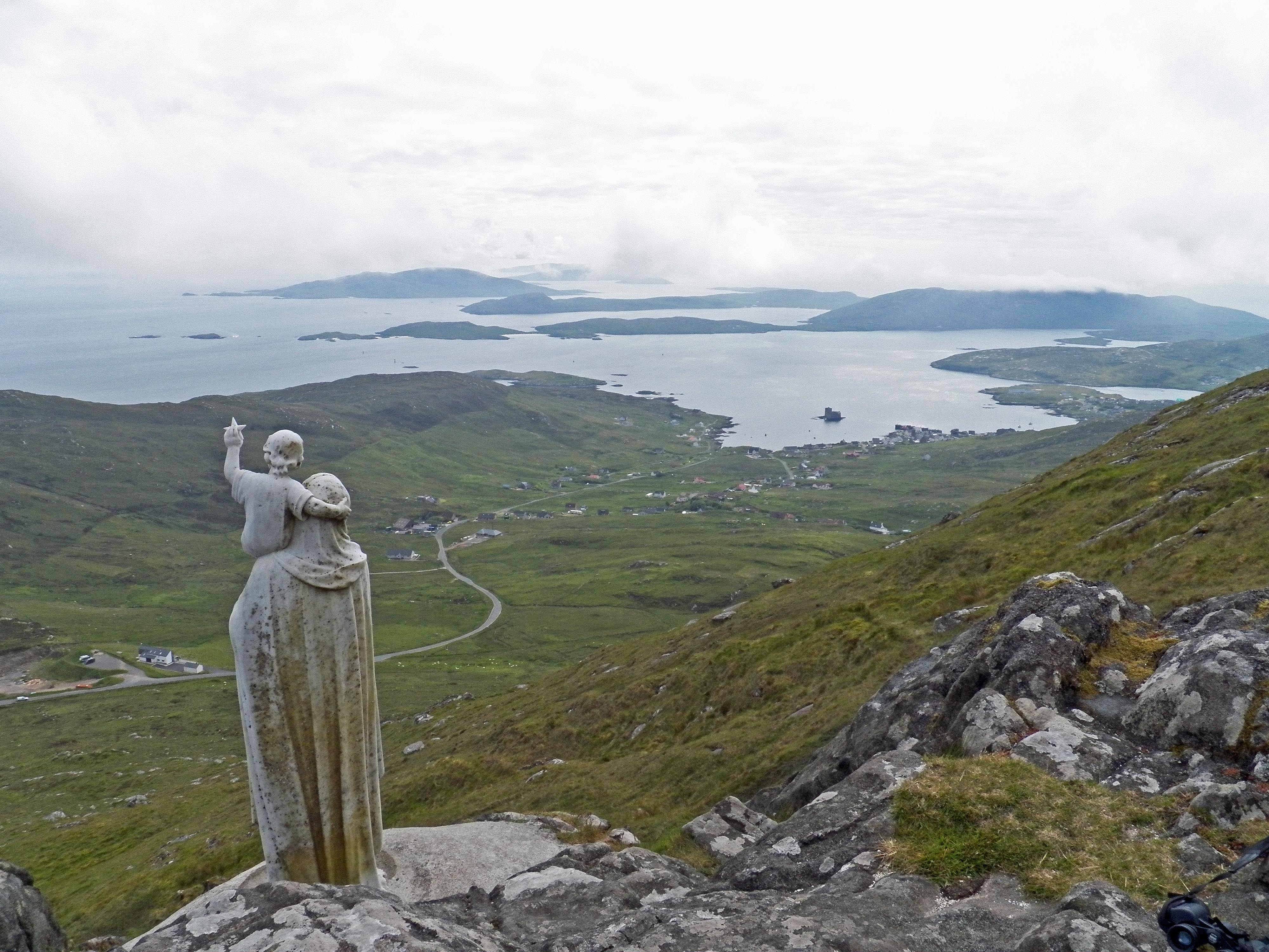 View from Heaval of Castlebay In the foreground is white marble statue of the Madonna and Child, called "Our Lady of the Sea", which was erected in 1954.